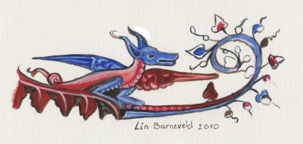 Copy of the drollery on the first page of the General Prologue in the Ellesmere Chaucer. Acrylic painting by Lin Barneveld (2010)